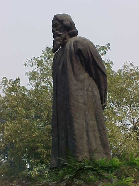 Statue of Rabindranath Tagore at Bangla Akademi campus in Nandan